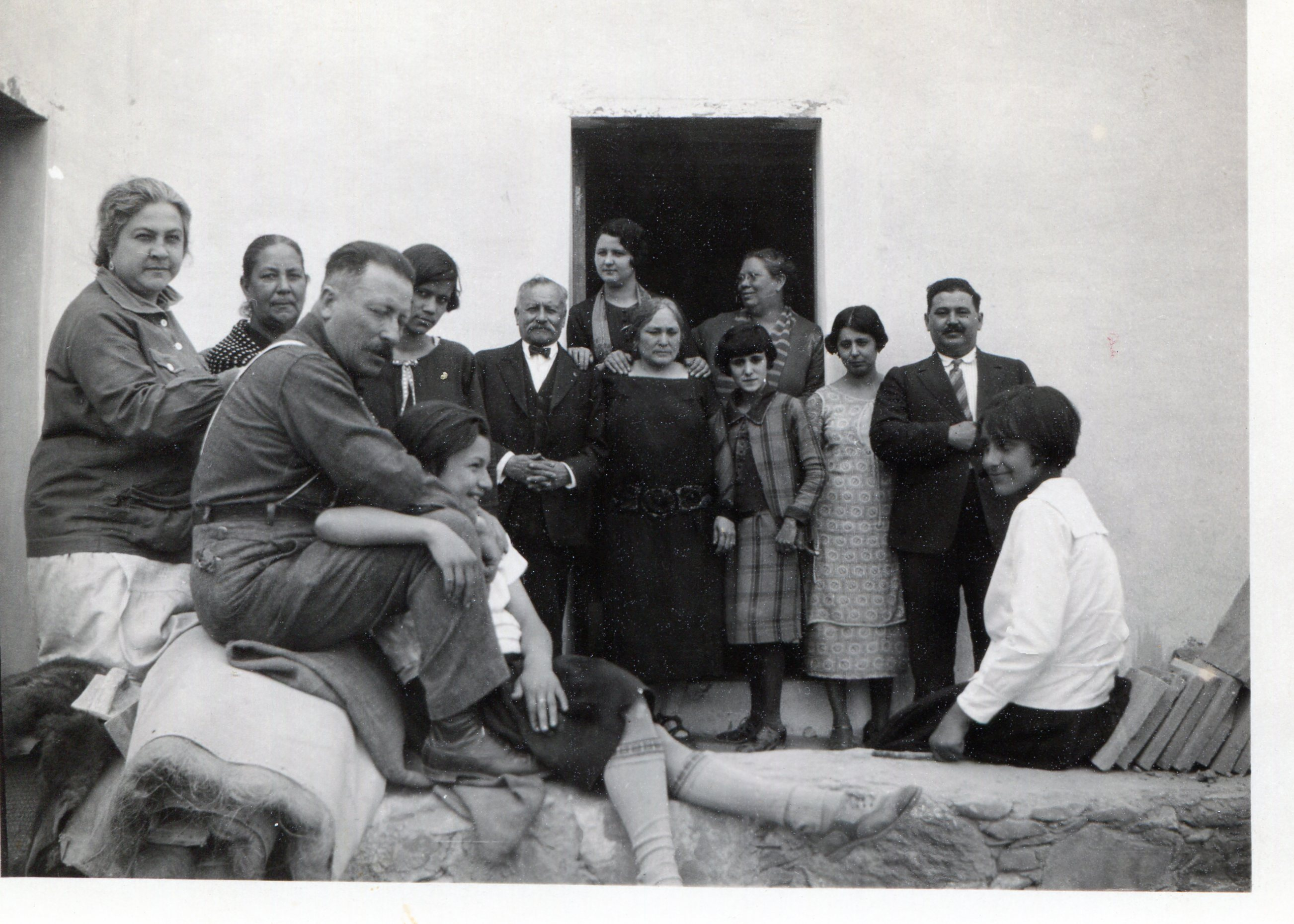 El Gral. Manuel Pérez Treviño disfrutando del clima fresco de Saltillo, Coahuila.